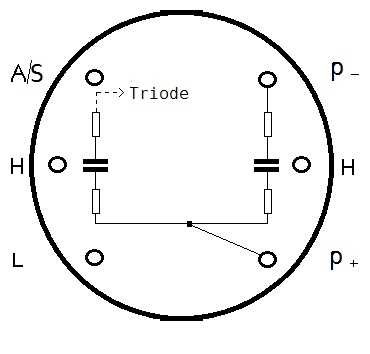 Special view inside 3NF tube/valve (Patent Siegmund Loewe 1925/1926) of part integrated components, how resistors and condensators. Triode: contact inside to triode A/S: contact outside to antenna and selection of stations P: contact outside to battery (P=Power) H: contact outside to power for heating of tube/valve L: contact outside to loudspeaker or headphone